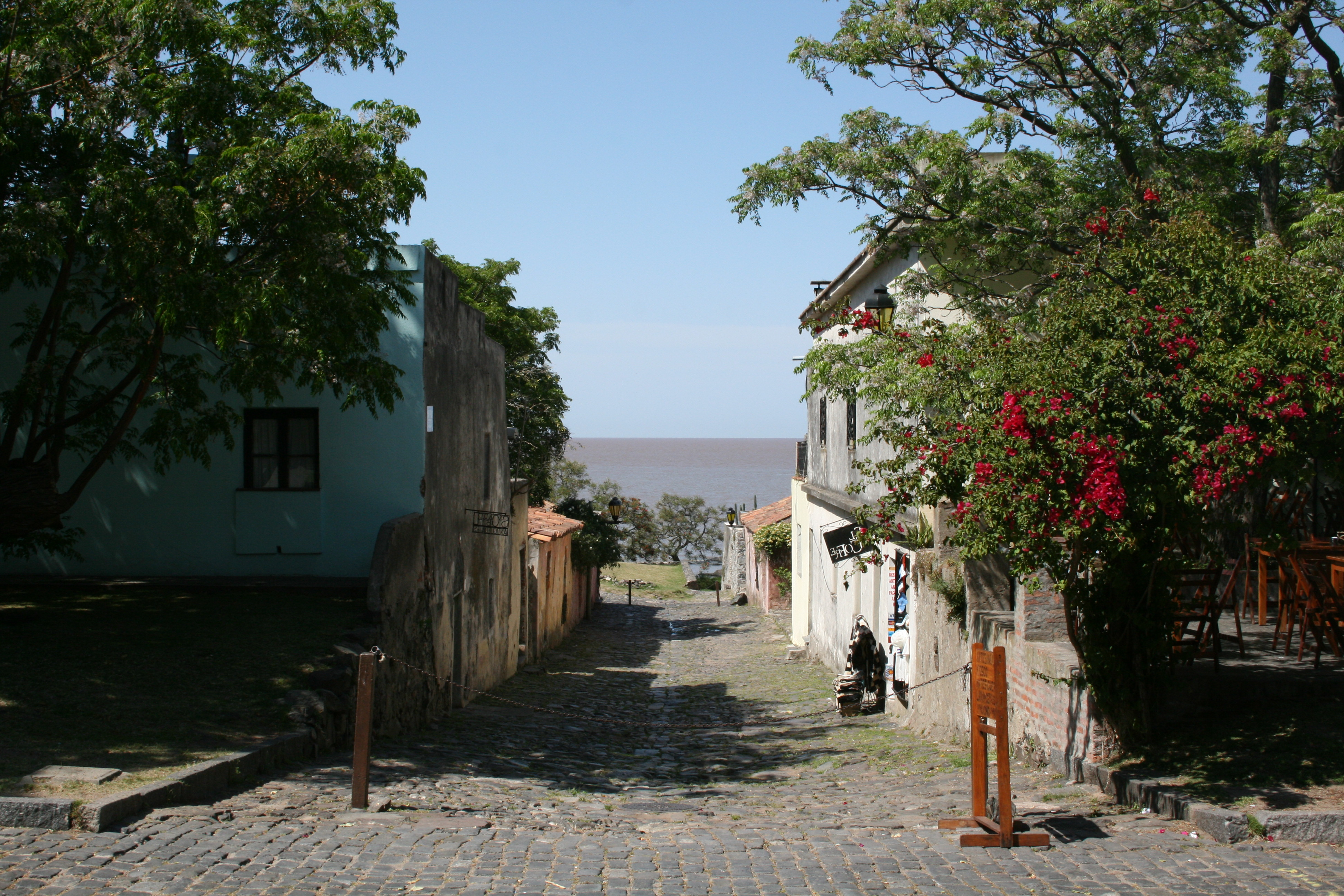 Colonia del Sacramento, Uruguay